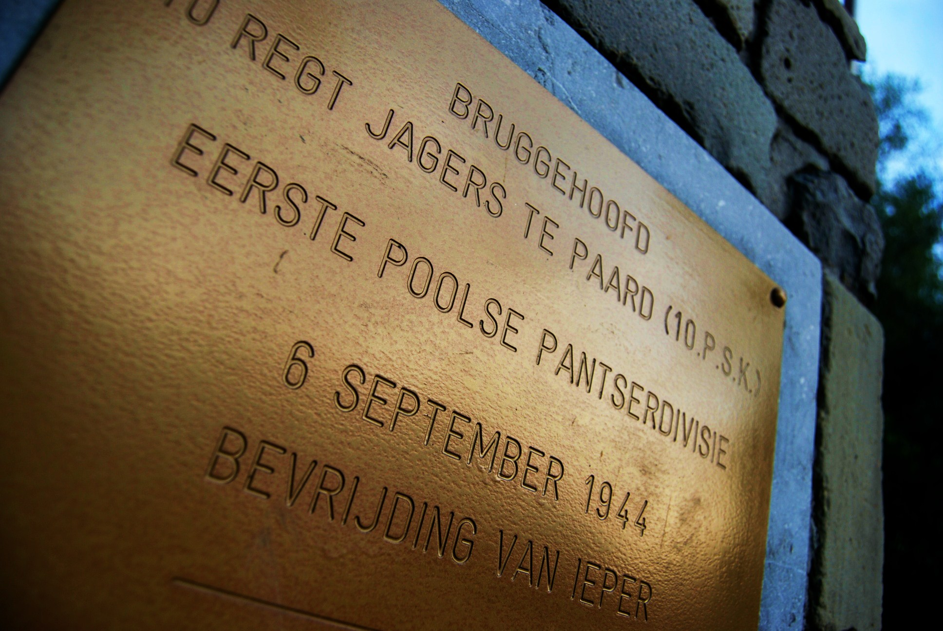 Memorial for the Liberation of Ypres on september 6, 1944